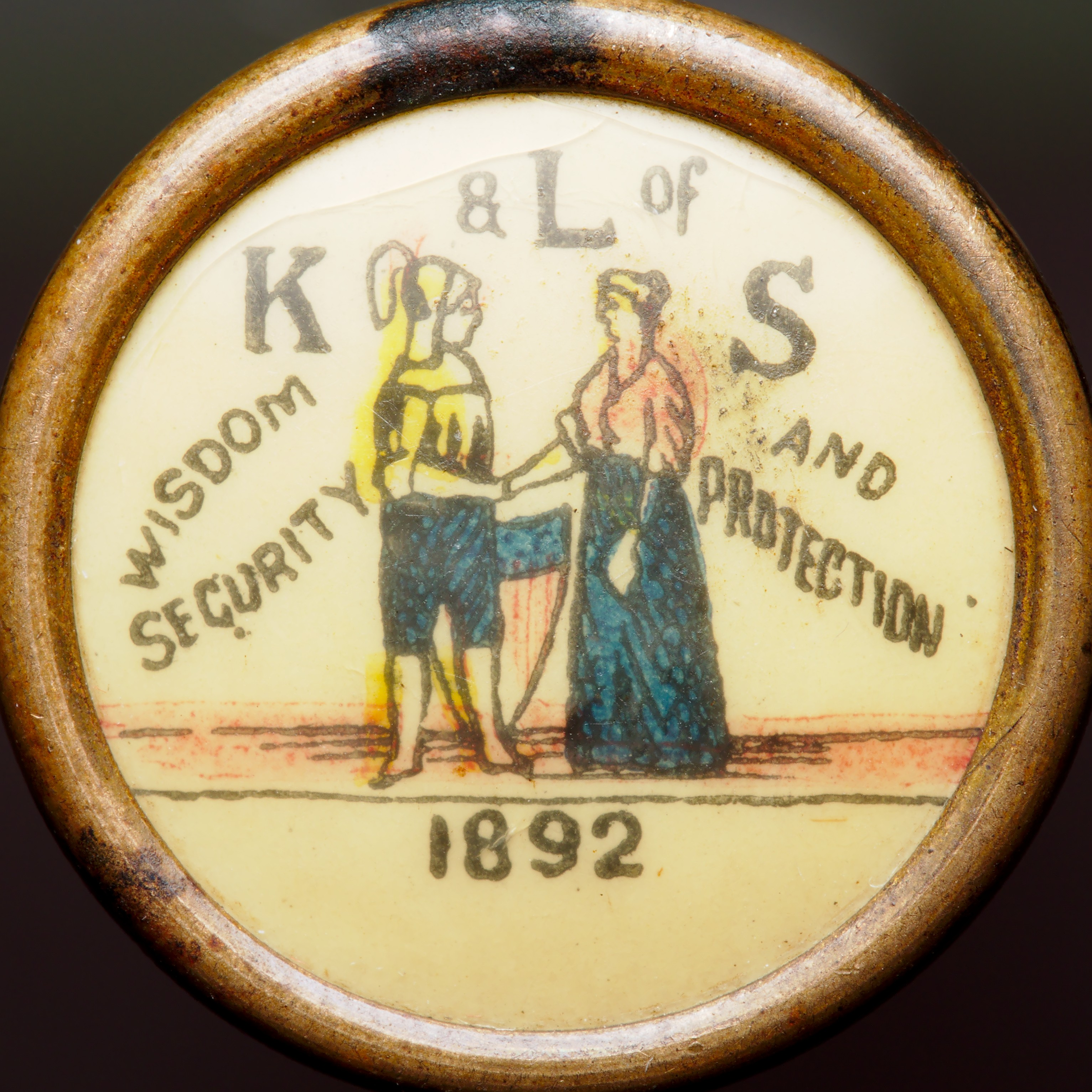 Pin button issued by The Knights and Ladies of Security, an early benefit society in the U.S. [1] The button is 5⁄8 inch (16 mm) in diameter and coated with celluloid.